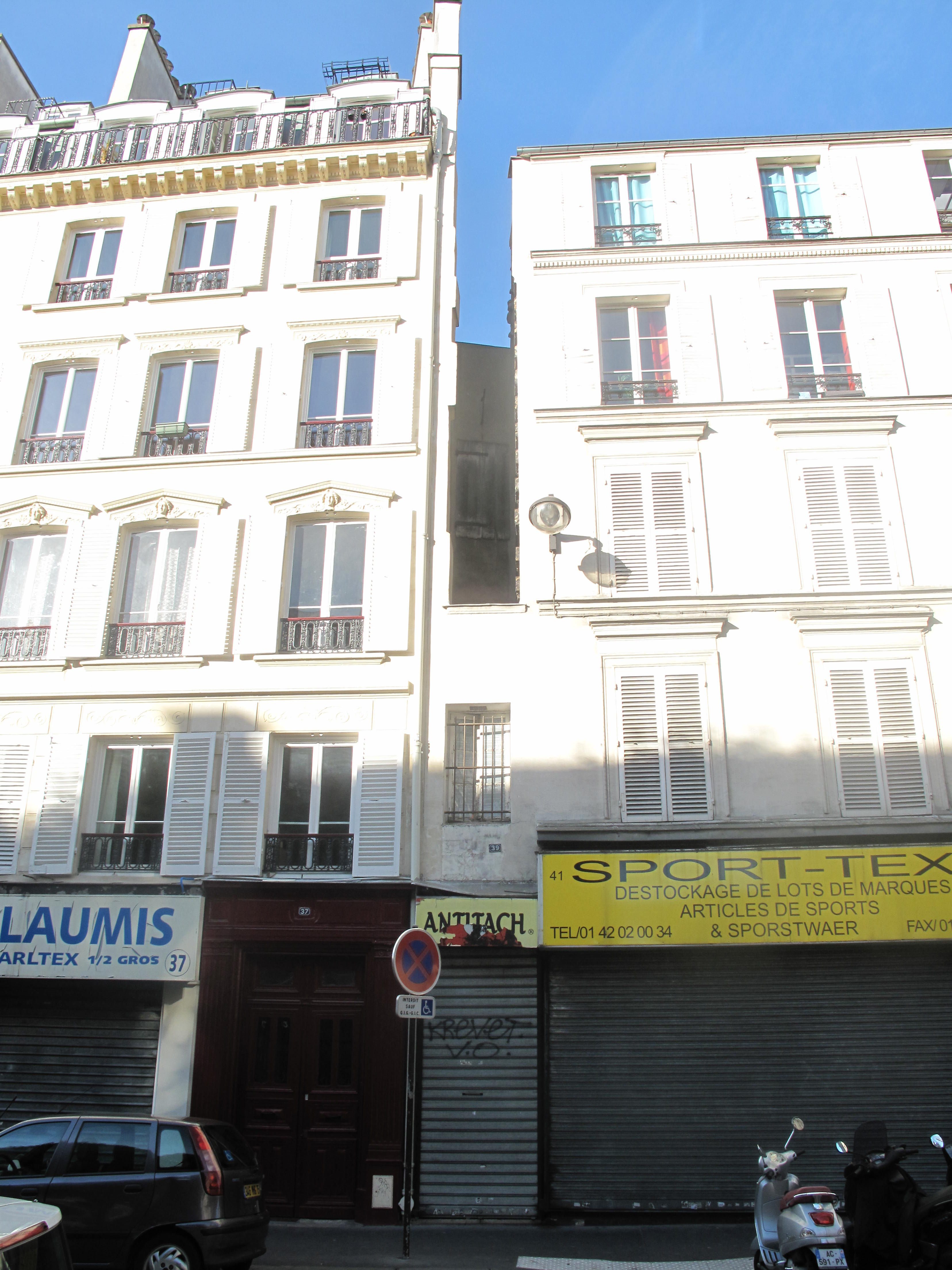 Narrowest (1.2 m) house in Paris : 39 rue du Château d'Eau, Paris 10th arr.